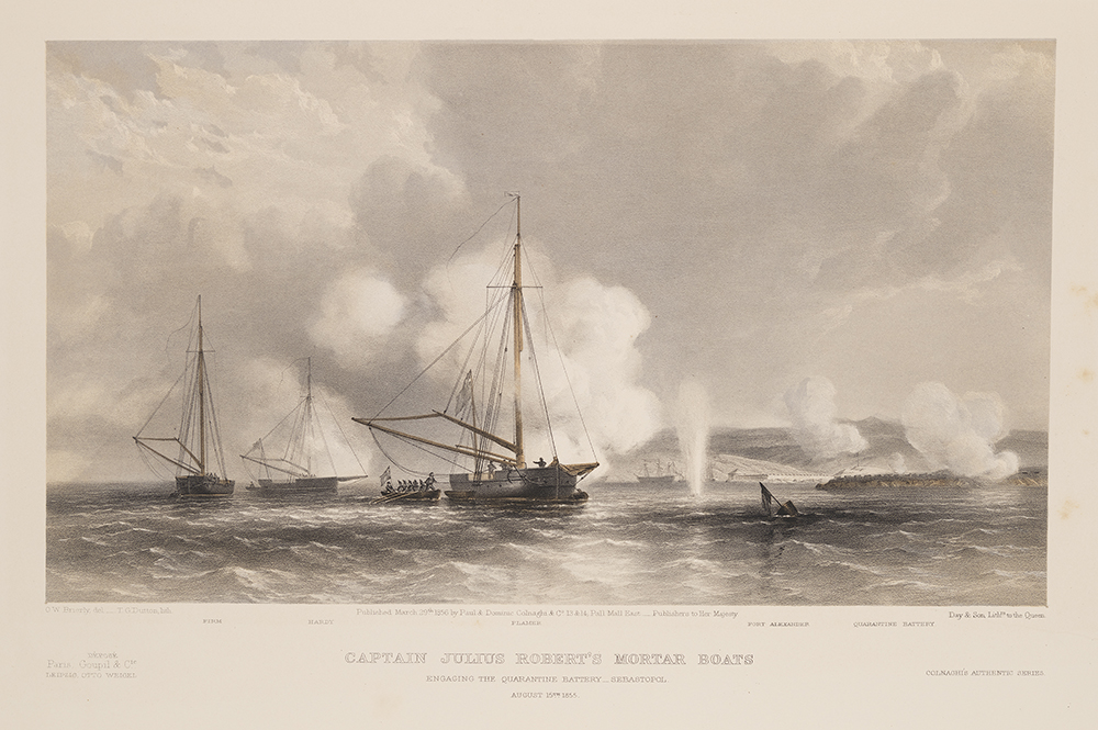 Title: Captain Julius Robert's Mortar Boats Creator: Brierly, Oswald Walters, Sir, 1817-1894 (delineator); Dutton, T. G. (Thomas Goldsworth), 1819-1891 (lithographer) Date: March 29, 1856 Part of: beautiful scenery and chief places of interest throughout the Crimea from paintings/ Series: Marine & Coast Sketches of the Black Sea/ Place: Sevastopol, Crimea; Black Sea Physical Description: 1 print: lithograph, color, part of 1 volume (65 prints); 26 x 39 cm on 40 x 56 cm File: folio_3_ne2524_b6_34_opt.jpg Rights: Please cite DeGolyer Library, Southern Methodist University when using this file. A high-resolution version of this file may be obtained for a fee. For details see the web page. For other information, . For more information and to view the image in high resolution, View the